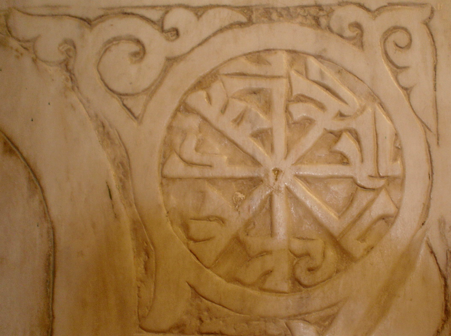 Radiant kufic inscription on the left of the mihrab niche, inside the prayer hall of the Great Mosque of Kairouan, in Tunisia.